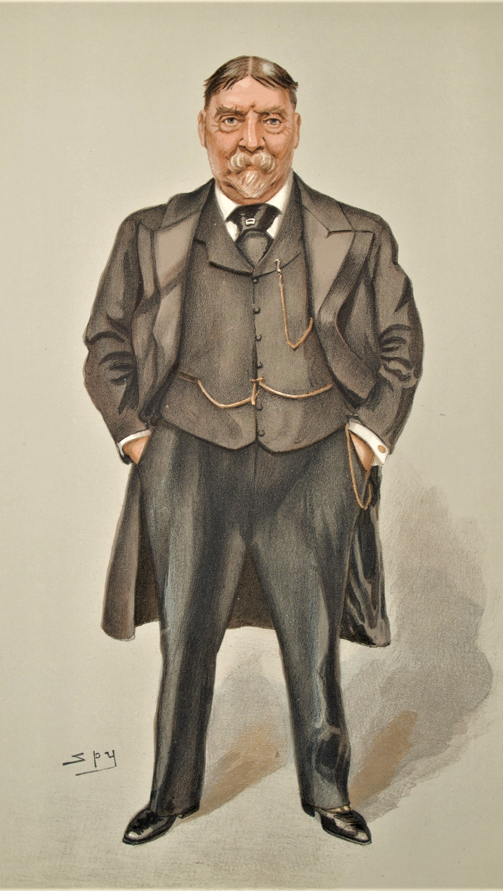 Men of the Day No. 843: Caricature of Admiral Sir Archibald Lucius Douglas. Caption read "North America and West Indies".